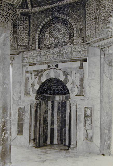 The mihrab of the Dome of the Chain